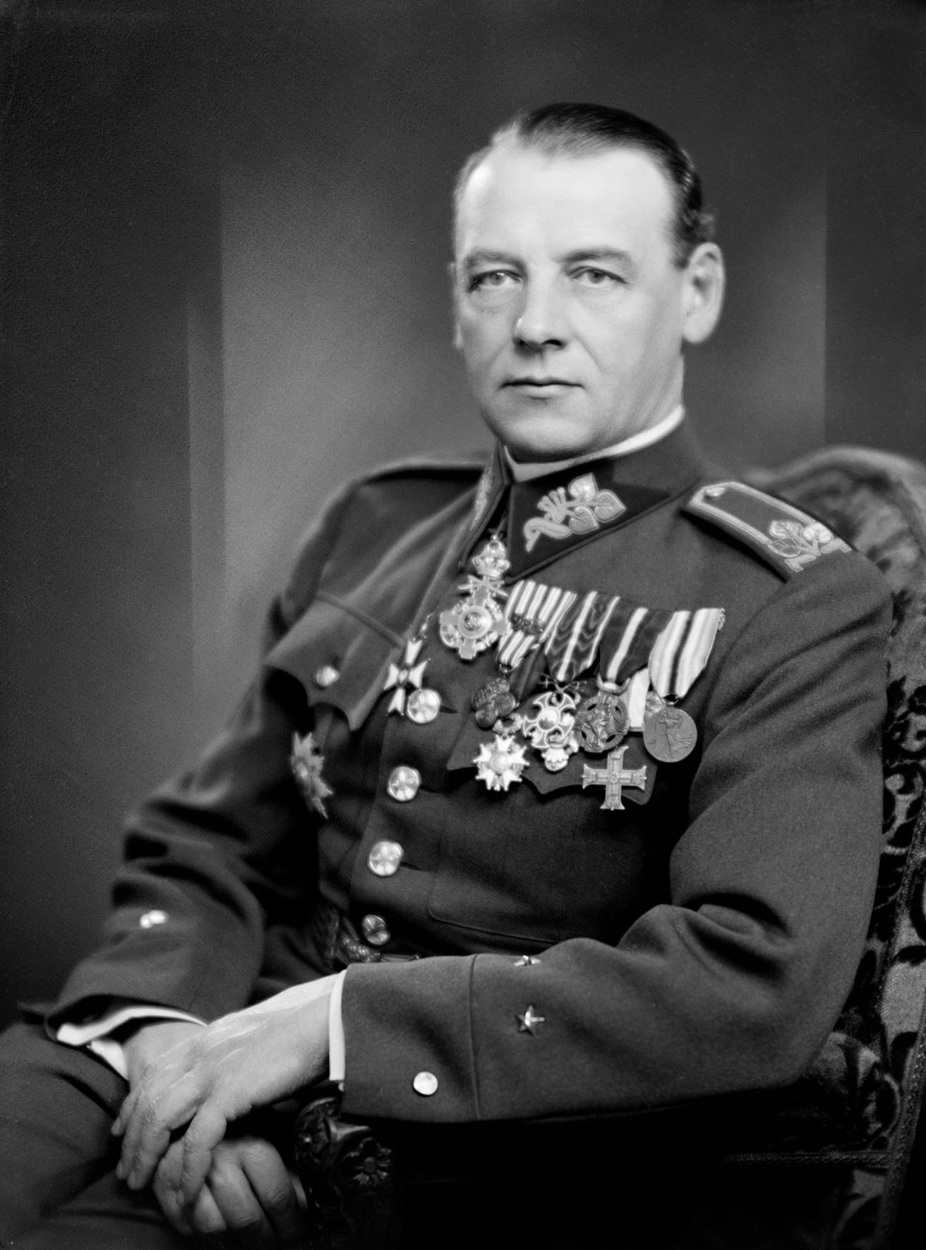 General Rudolf Viest on photo from Langhans atelier